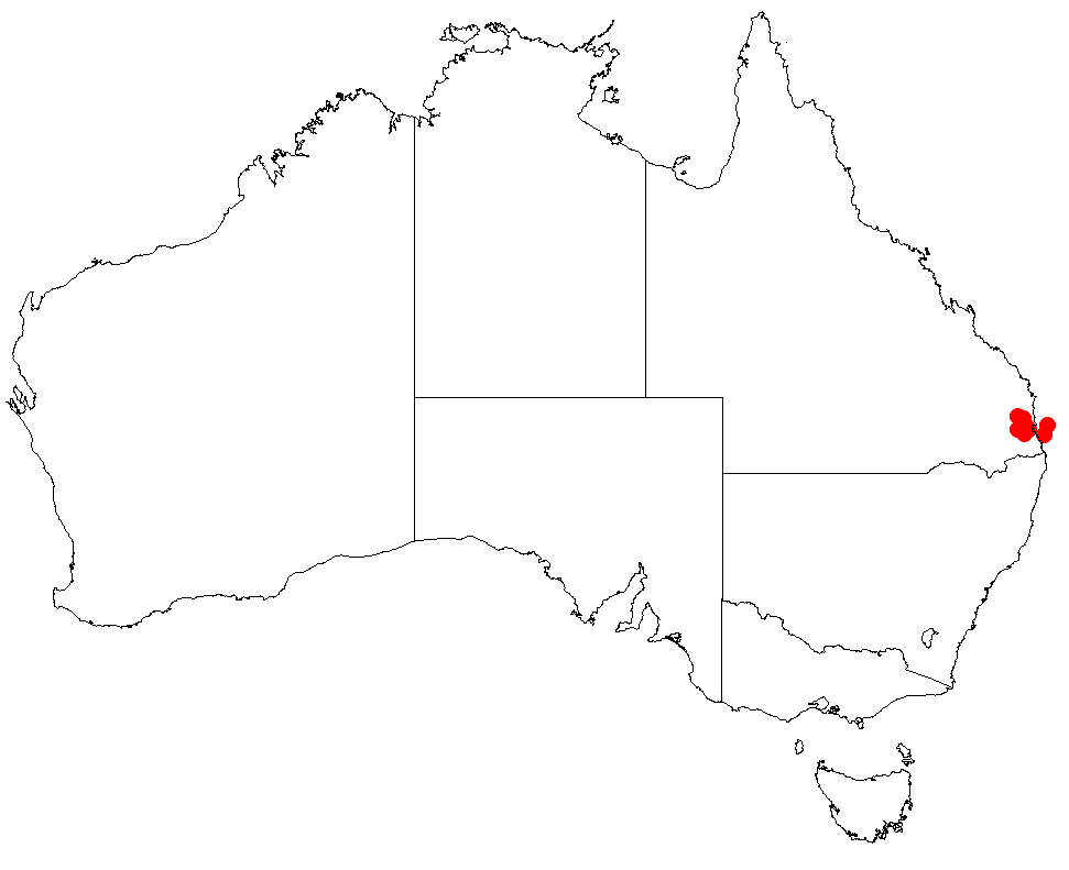 Persoonia iogyna Occurrence data downloaded from Australasian Virtual Herbarium on 30 October 2018 from